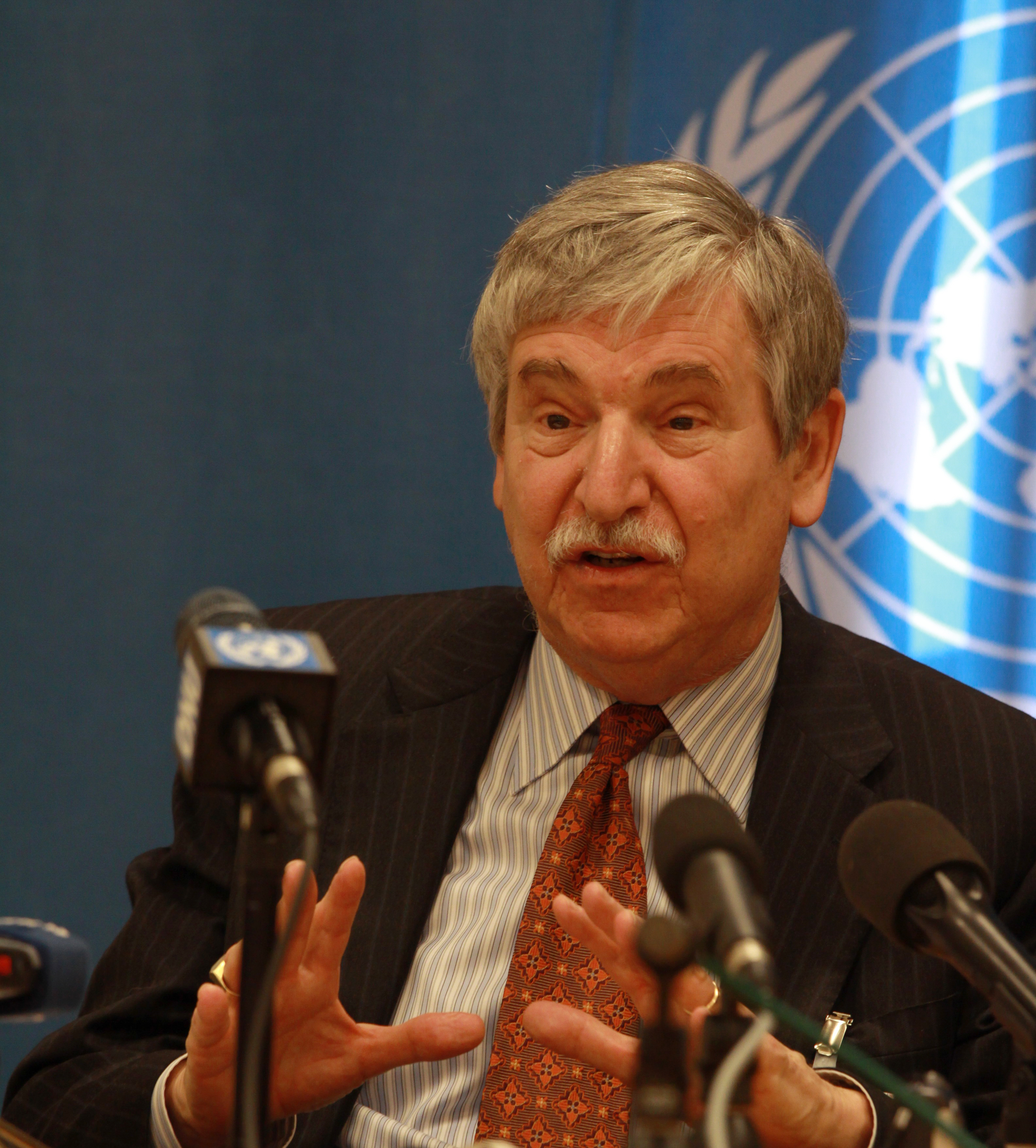 Ambassador John W. Limbert, Deputy Assistant Secretary for Iran, speaking at a press conference February 10, 2010. Ambassador Limbert visited Geneva February 9-11 in advance of the Human Rights Council's first Universal Periodic Review of Iran. His visit included meetings with representatives of the Office of the U.N. High Commissioner for Human Rights, independent human rights NGOs, diplomats from a number of different countries, and a discussion with the international press at the United Nations." U.S. Mission Photo: Eric Bridiers